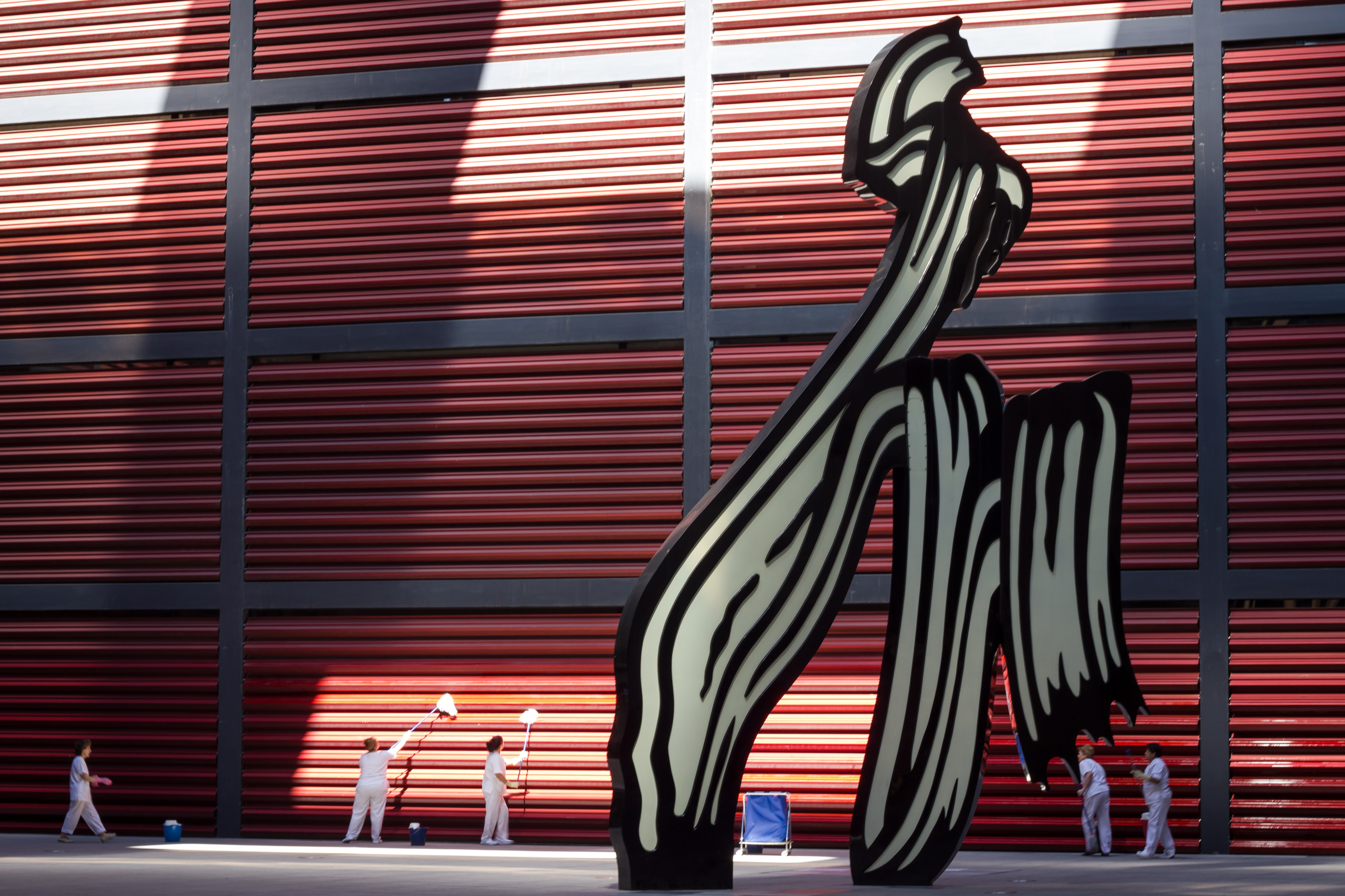 Cleaners at Museo Reina Sofía.